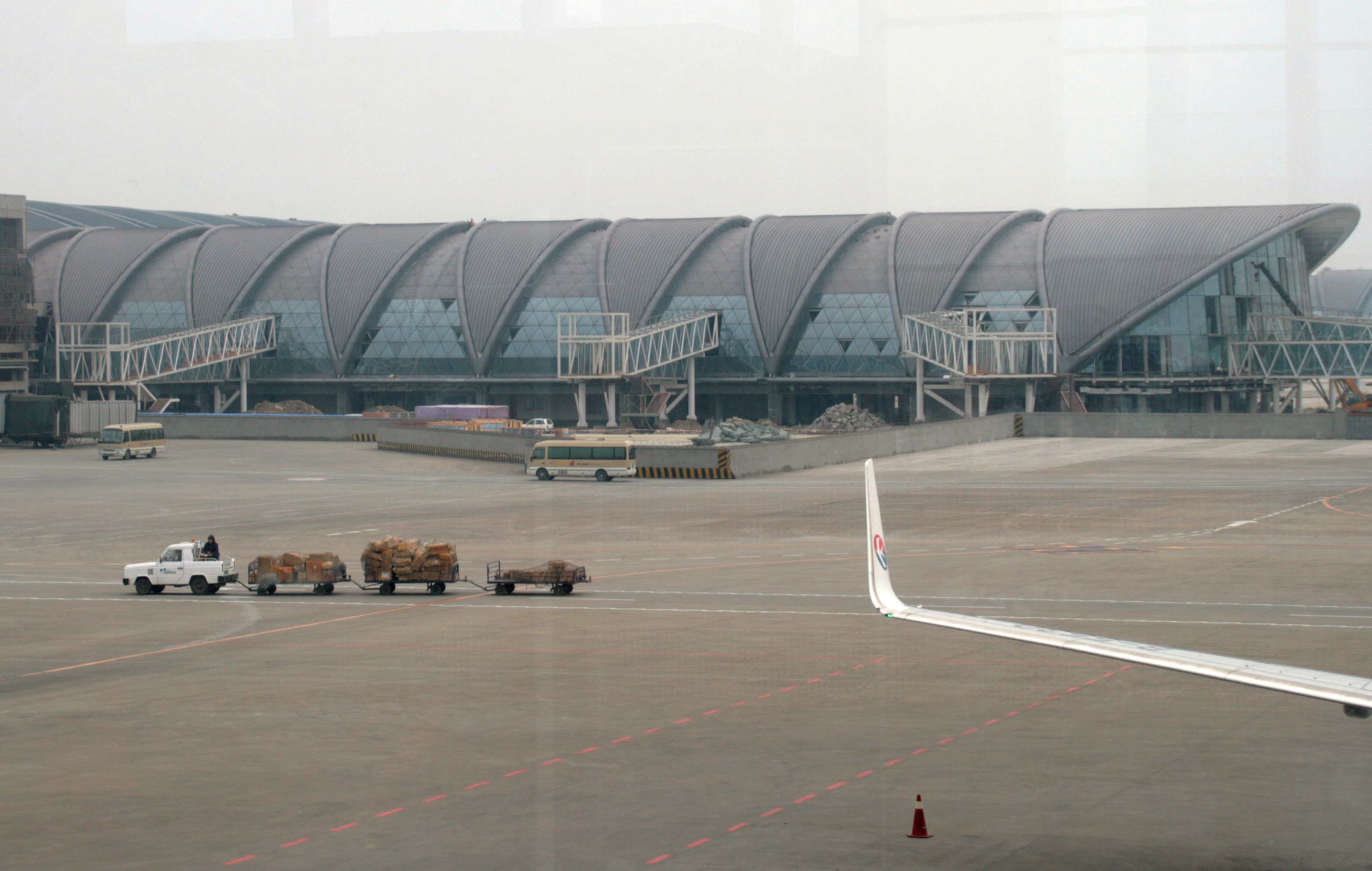 Terminal 2 of Chengdu International Airport under construction